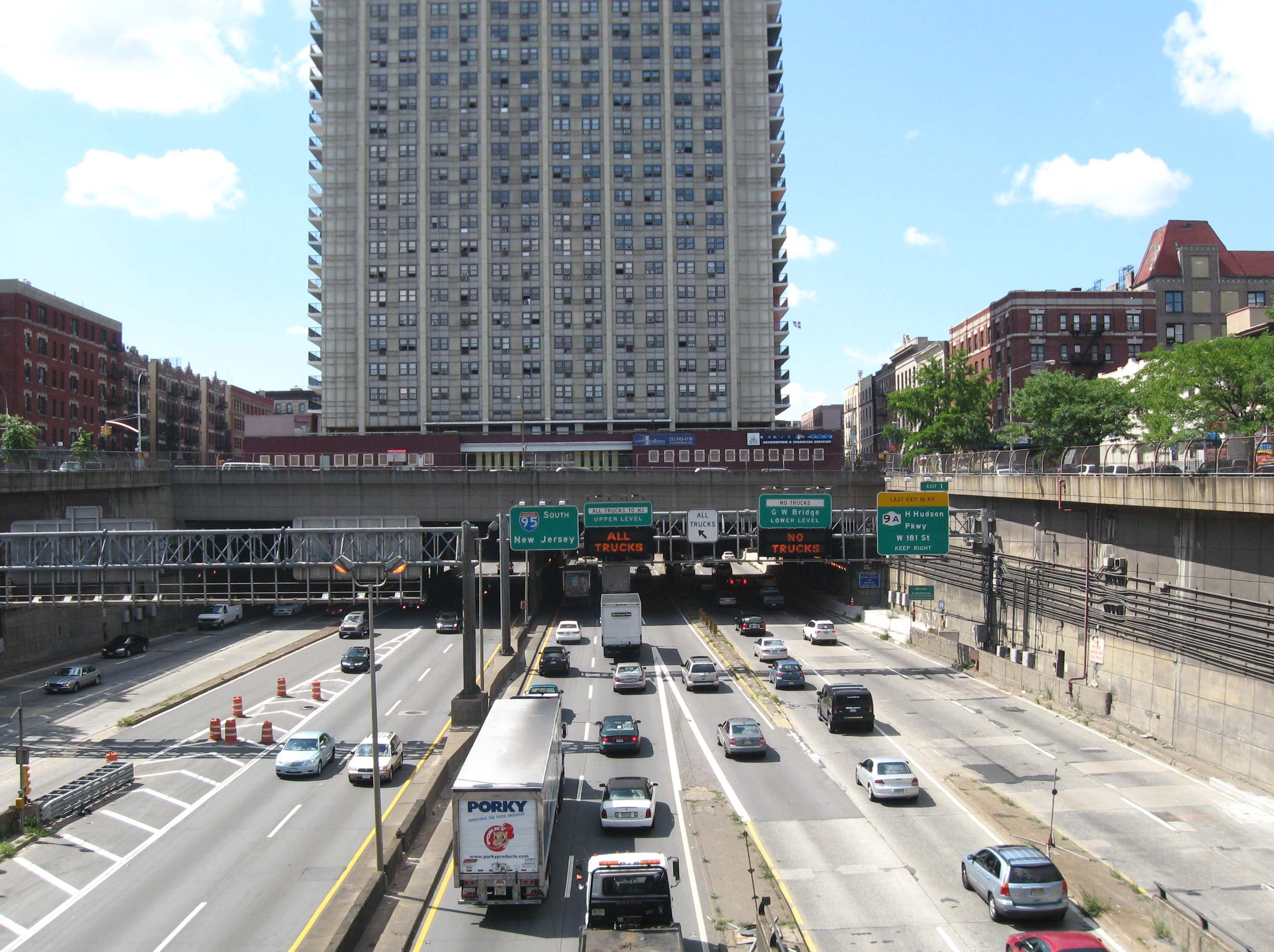 Looking west from Amsterdam Avenue overpass on a sunny midday at easternmost apartment house over Trans-Manhattan Expressway